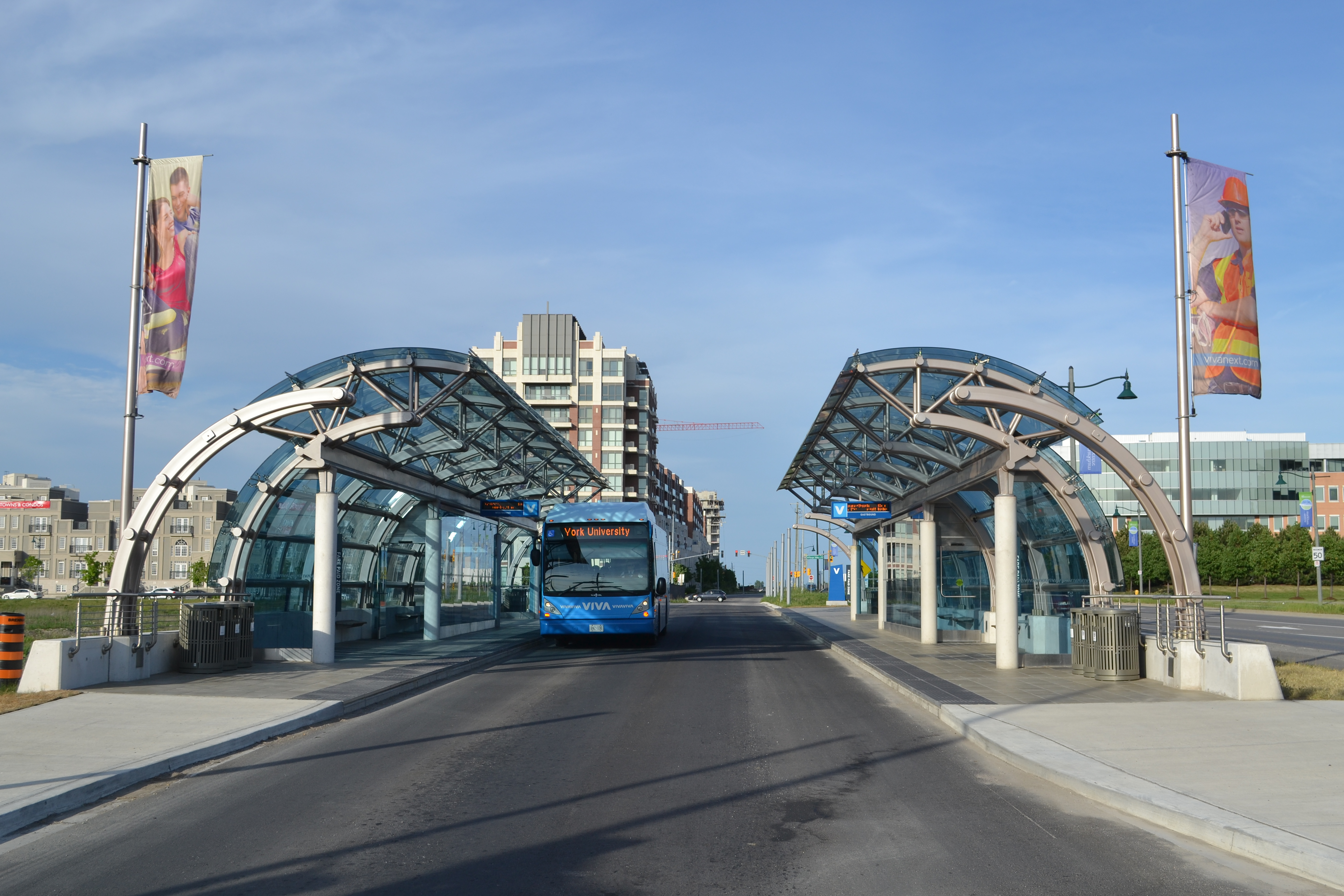 Warden VIVA Terminal